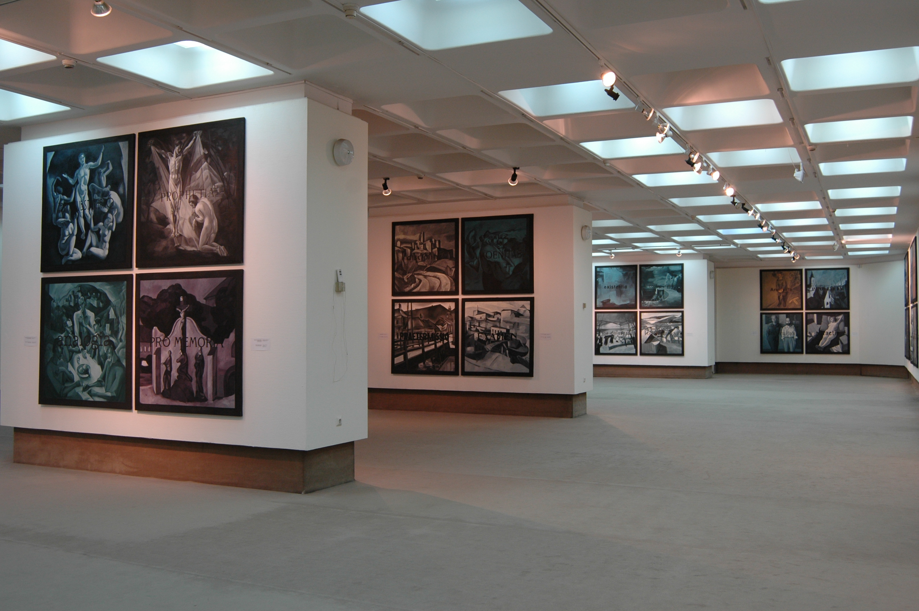 Exhibition in Szombathelyi Képtár 2006